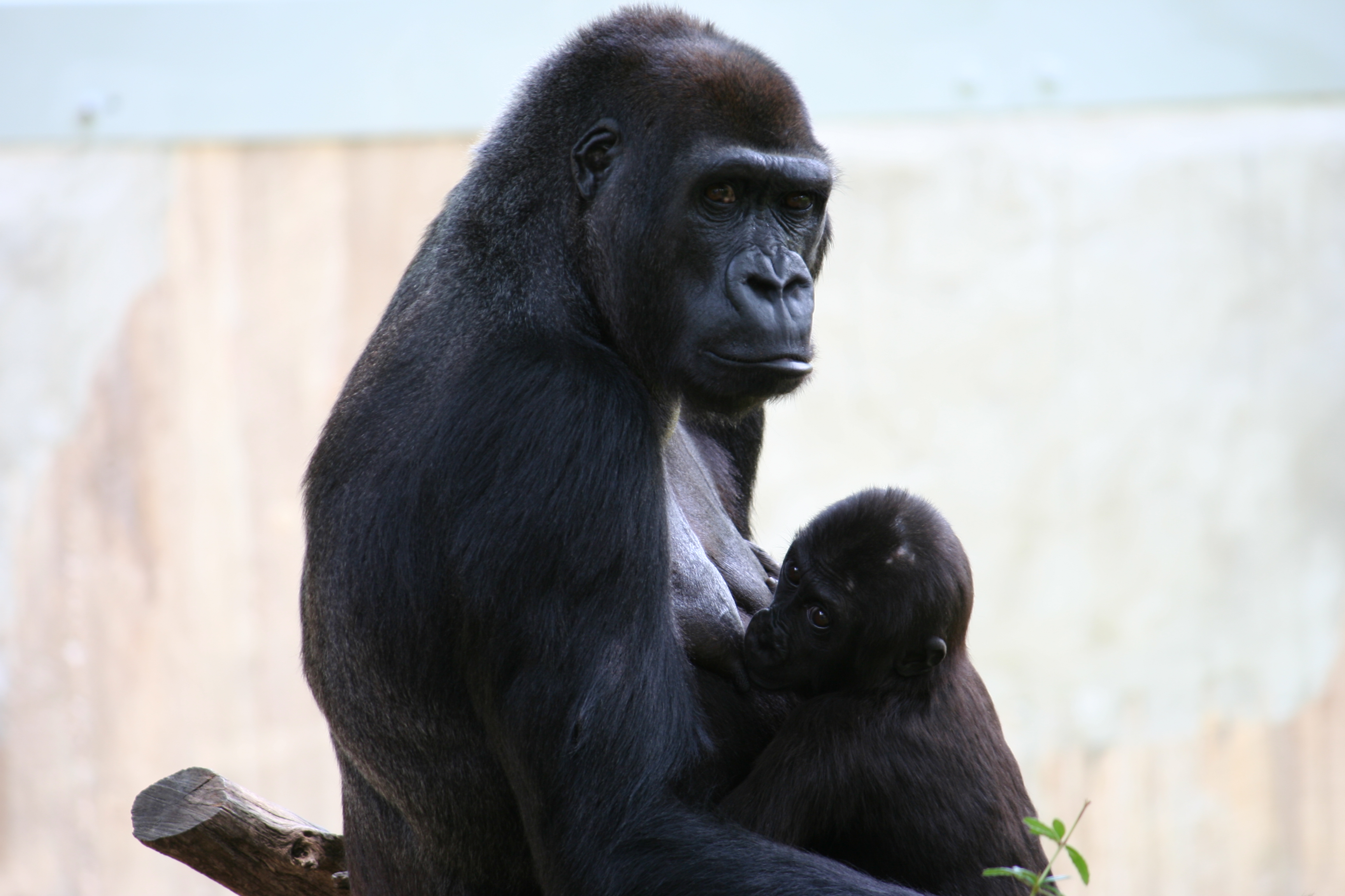 Mother and baby gorilla at the National Zoo in Washington, D.C.